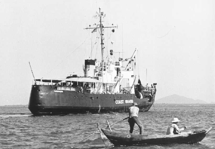 The Coast Guard Cutter Basswood works a buoy as busy Vietnamese fishermen travel to open sea and their fishing grounds from Vung Tau harbor. The cutter battled monsoon weather for a 30-day tour to establish and reservice sea aids-to-navigation dotting the 1,000 mile South Vietnamese coastline.